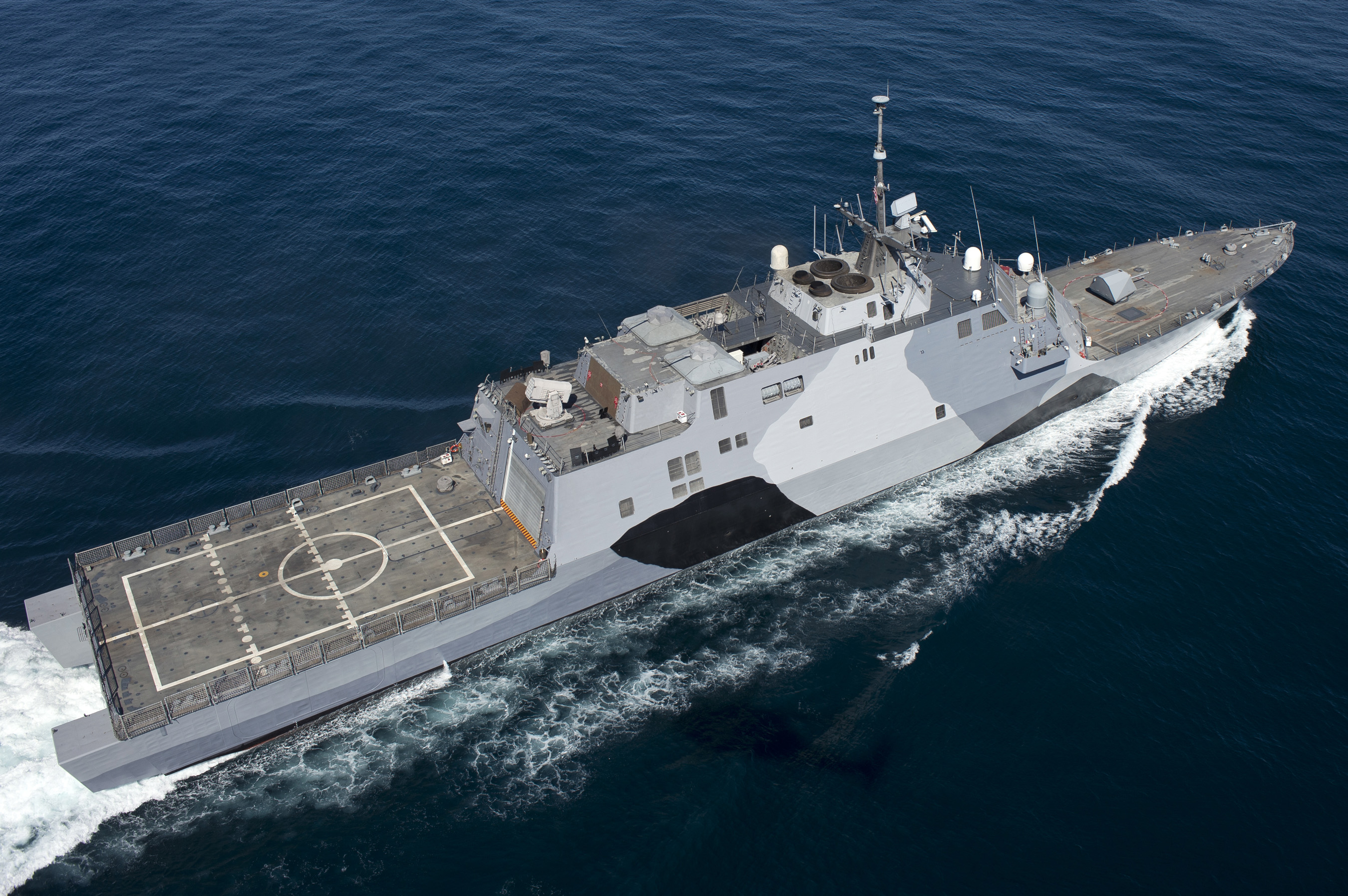 130222-N-DR144-367 The littoral combat ship USS Freedom (LCS 1) is underway conducting sea trials off the coast of Southern California. Freedom, the lead ship of the Freedom variant of LCS, is expected to deploy to Southeast Asia this spring.